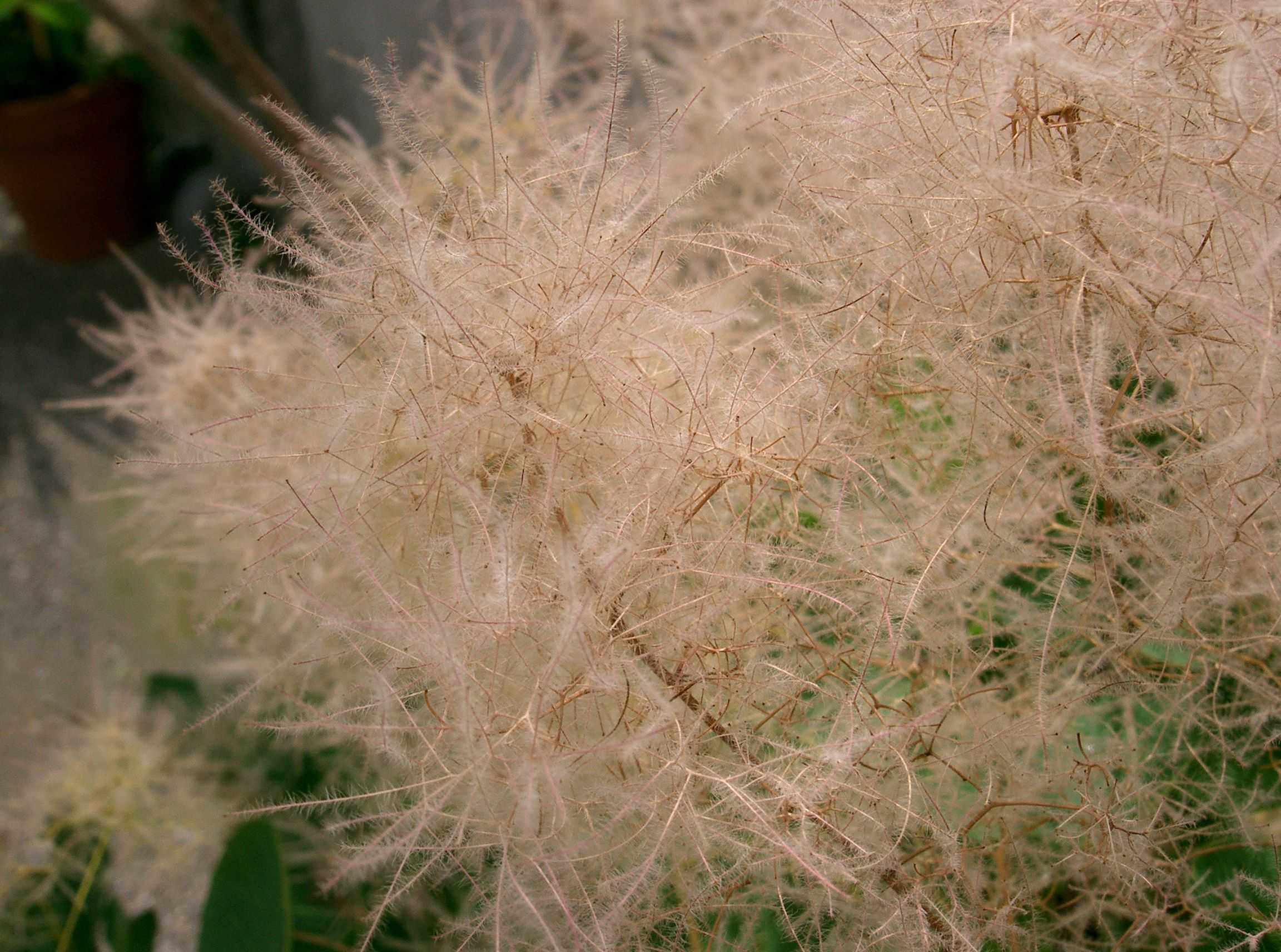 Cotinus coggygria